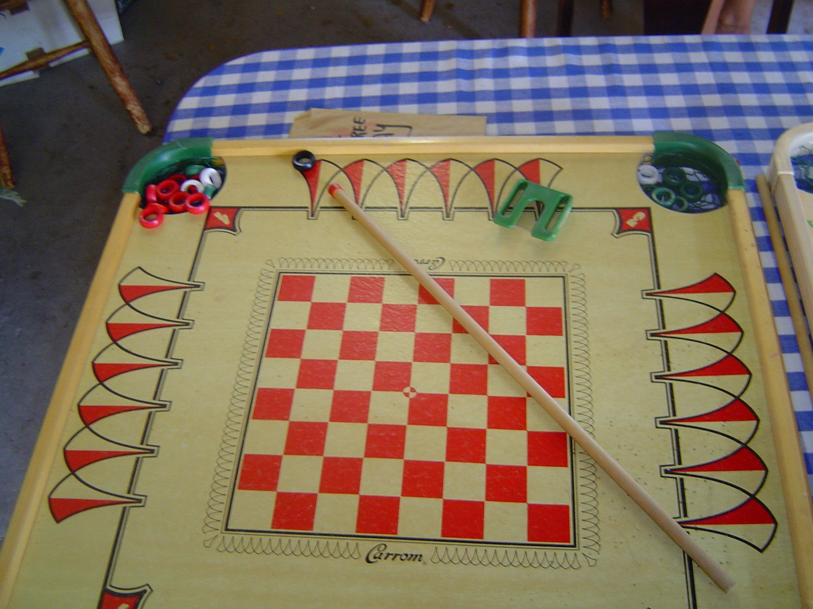 Carrom Board Game made in Ludington, Michigan